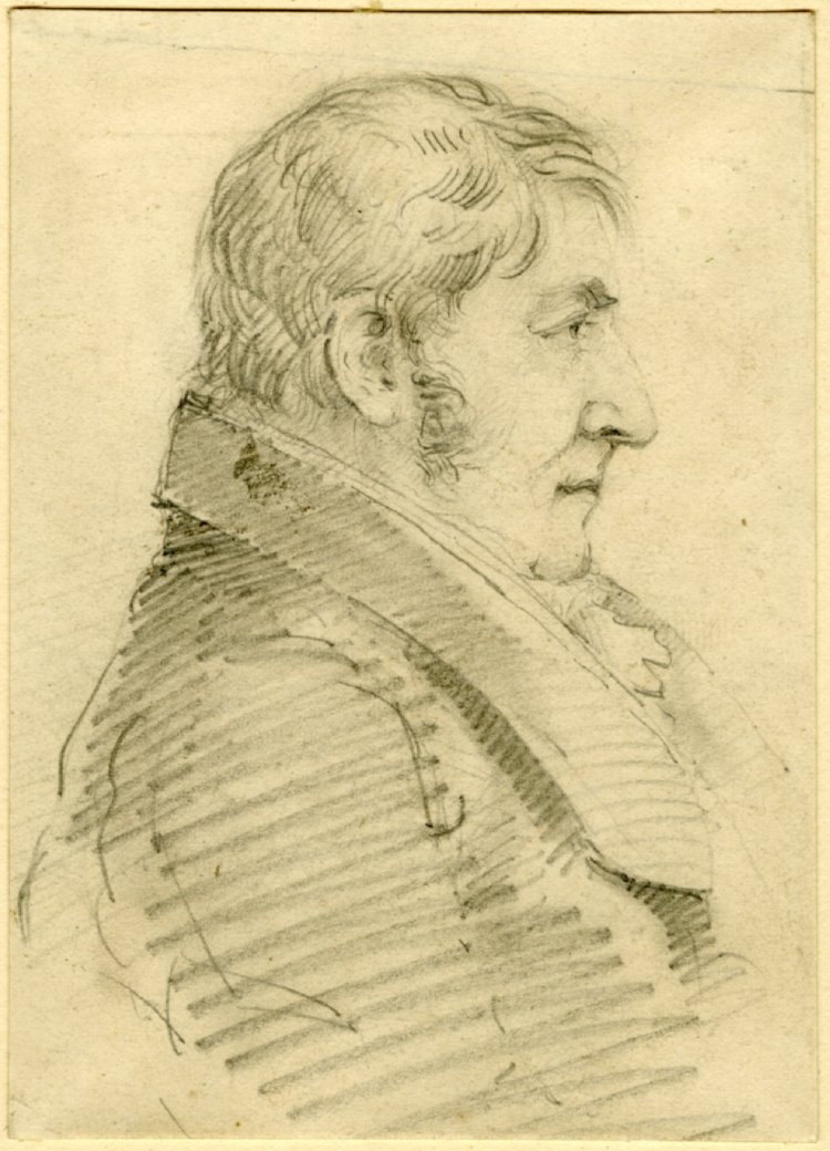 Portrait of Joseph Mallord William Turner